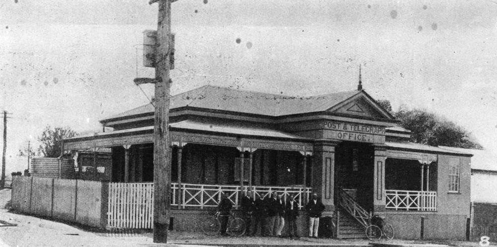 Ravenswood Post Office, 1906. This Post and Telegraph Office at Rosewood was erected in 1886. (Description supplied with photograph.).